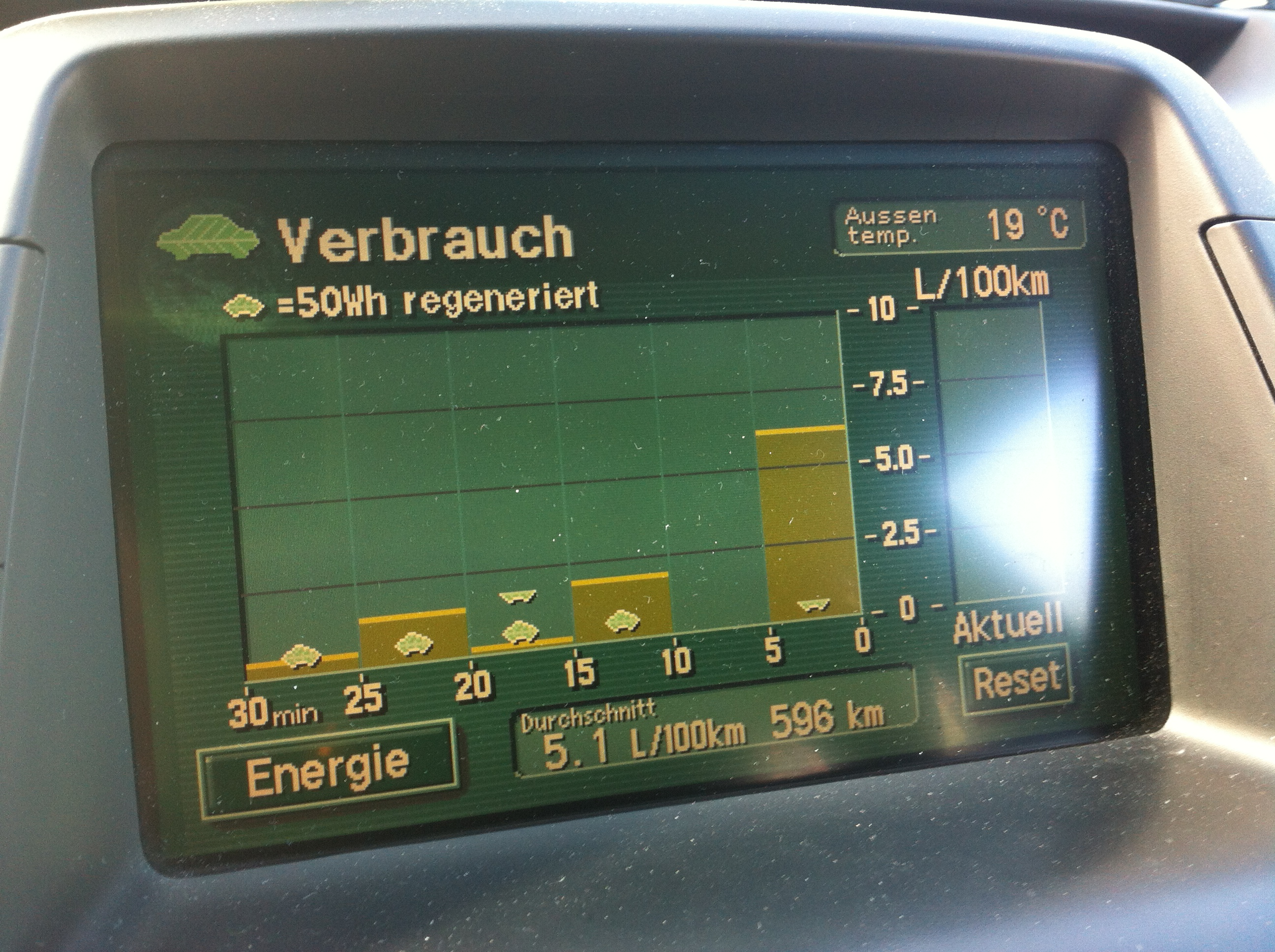 I happened to sit in the same Toyota Prius twice, showing a fuel consuption of only 5.1 liters in the town of Zurich, which differs in altitude beteween 405 and 609 Meters above sea level.